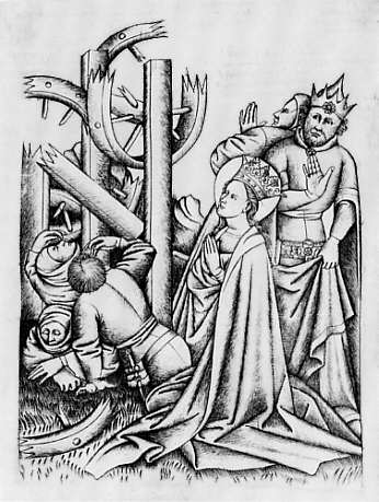 Martyrdom of Saint Catherine of Alexandria, Munich, Staatl. Graphische Sammlung